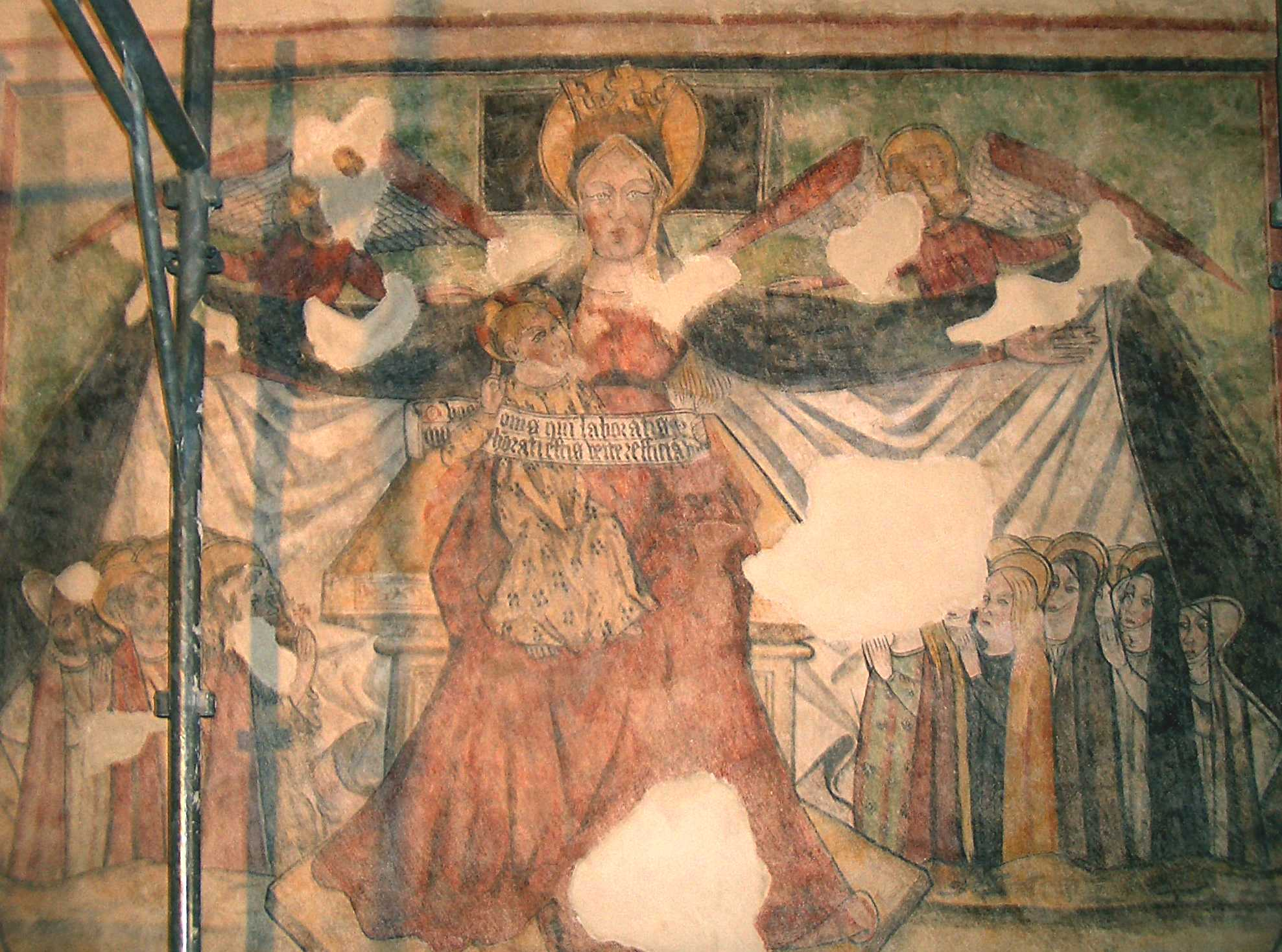 Unknown painter, (XV century) Our Ladt of Mercy (detail), Issiglio (TO), Cemetery church